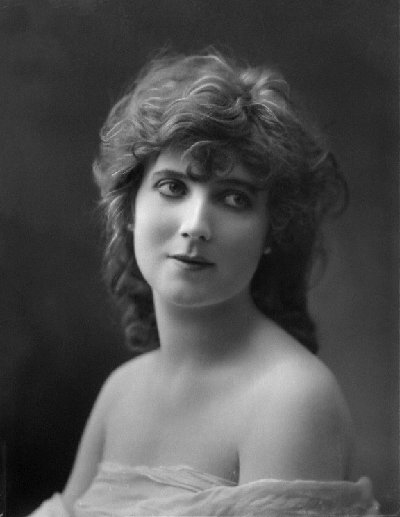 Gina Palerme actress and dancer in 1915